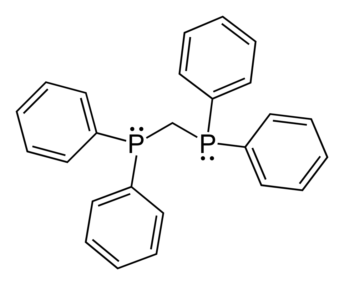 Skeletal formula of the 1,1-bis(diphenylphosphino)methane or dppm molecule, C25H22P2 or H2C(PPh2)2. X-ray structure from Acta Cryst. (2007). E63, o2559. Model constructed in CrystalMaker 8.1. Image generated in Accelrys DS Visualizer.